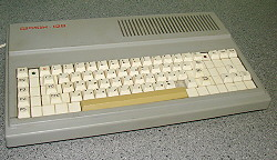 Soviet computer Orion-128 with i8080 chip and 128 kbytes RAM